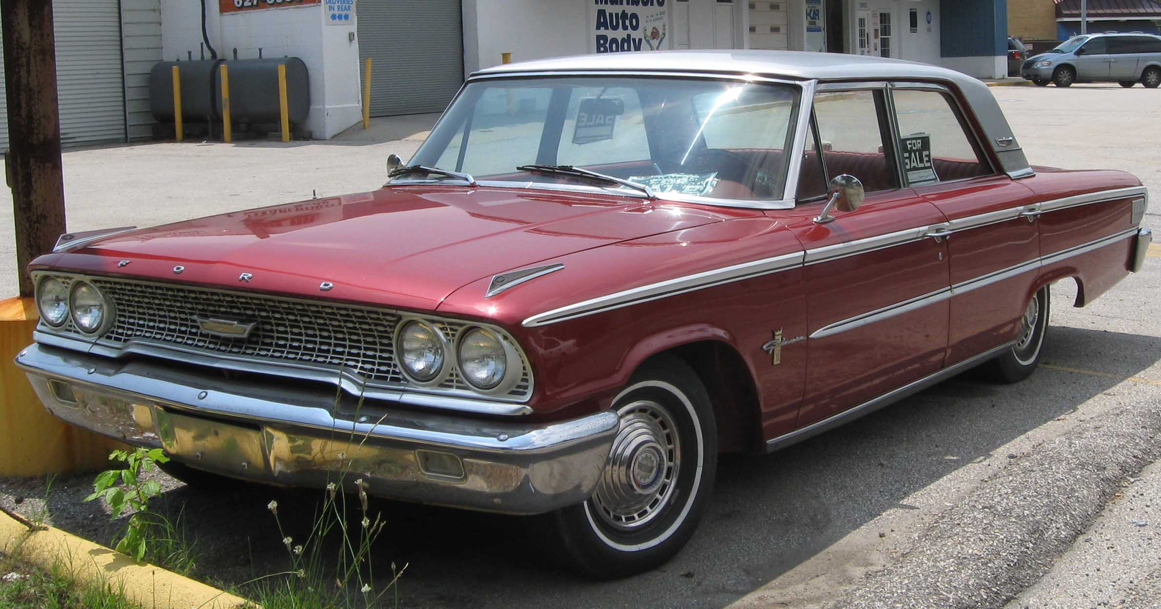 1963 Ford Galaxie 500 photographed in Upper Marlboro, Maryland, USA.